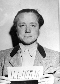 Max Ilgner (1899-1966) at the Nuremberg Trials. Ilgner was I.G. Farben official and member of NSDAP. This photograph of Ilgner (probably as a defendant) was taken by US Army photographers on behalf of the Office of the U.S. Chief of Counsel for the Prosecution of Axis Criminality (OUSCCPAC, May 1945 - Oct. 1946) or its successor organization, the Office of Chief of Counsel for War Crimes (OCCWC, Oct. 1946 - June 1949). sentenced 3 years